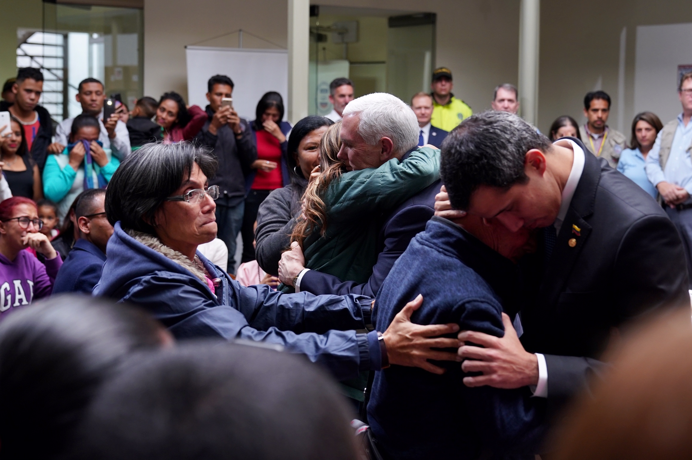 Vice President Mike Pence and Venezuelan President Juan Guaido meet with Venezuelan migrants Monday, Feb. 25, 2019, in Bogota, Colombia. (Official White House Photo by D. Myles Cullen)